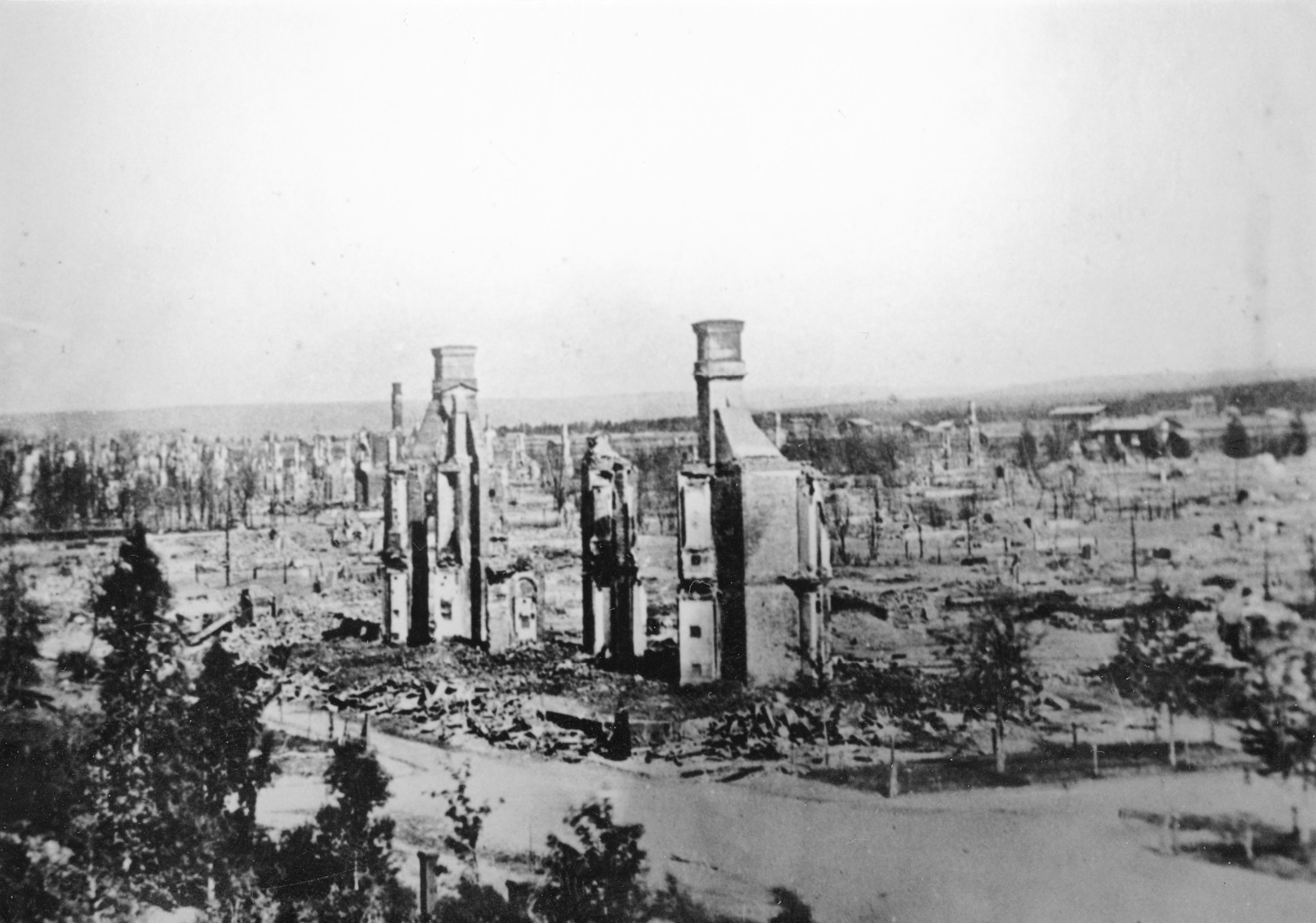 Umeå after the city fire. Photo taken from the prison roof facing the northwest.